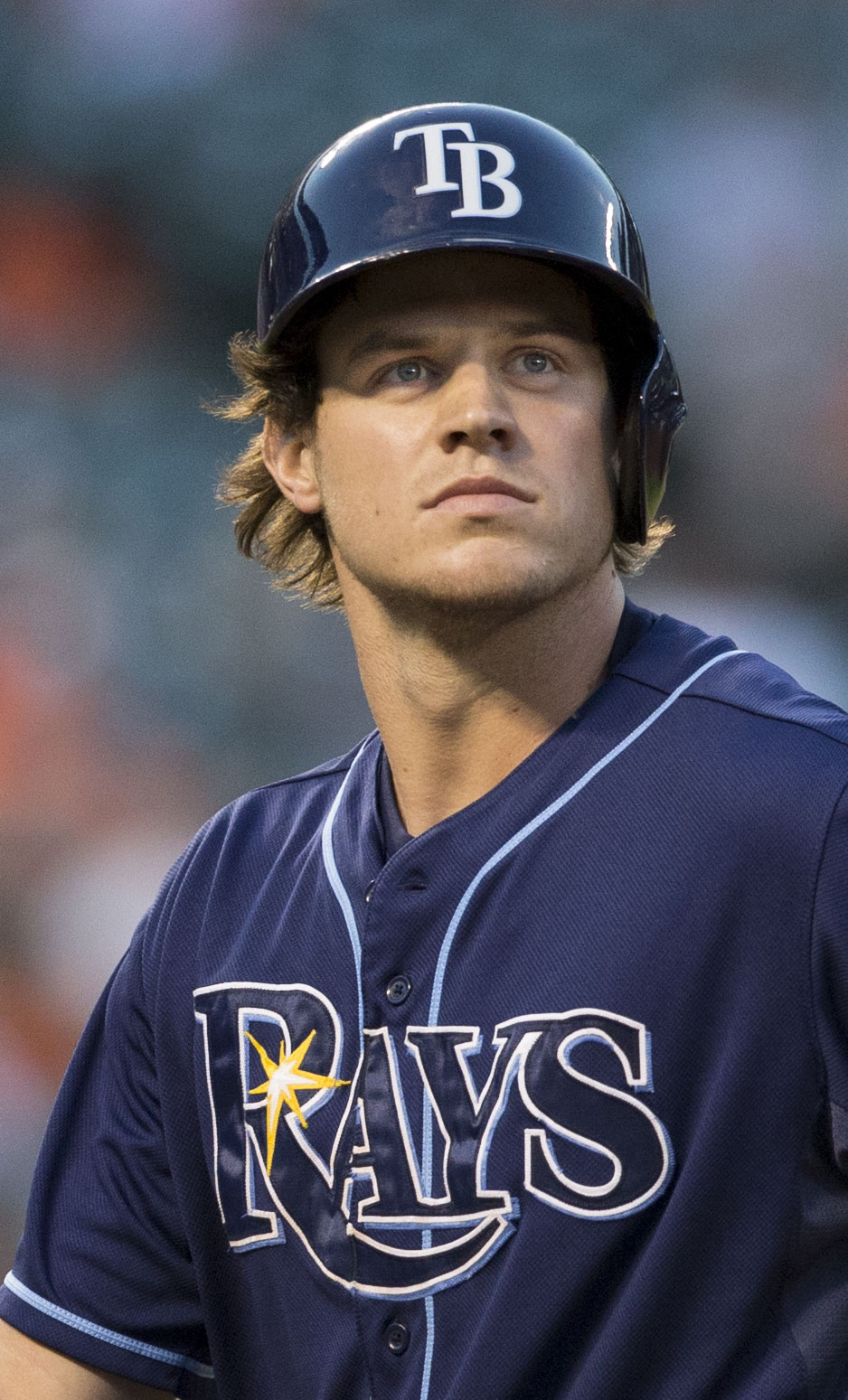 Wil Myers of the Tampa Bay Rays in 2014.